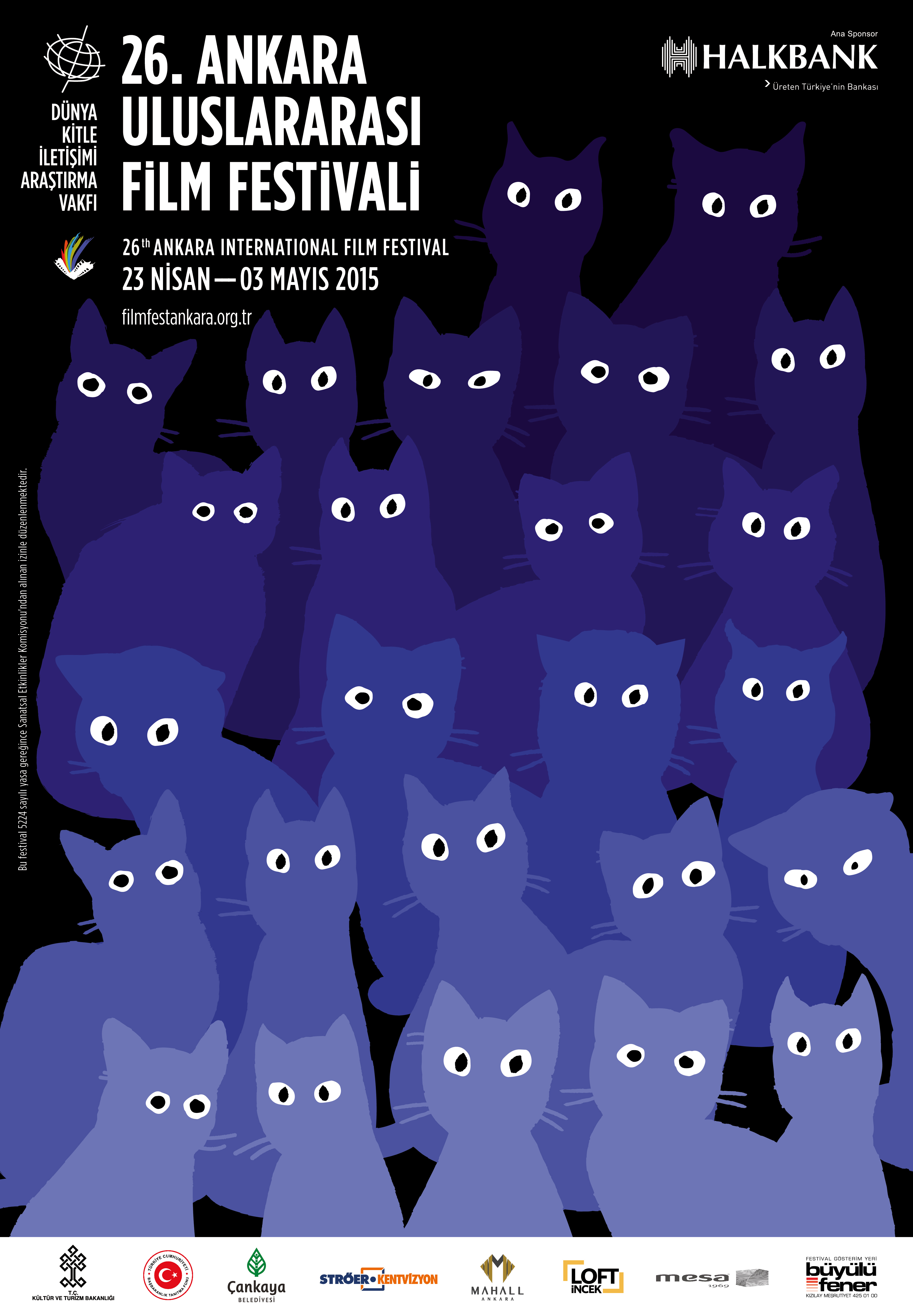 26. ANKARA INTERNATIONAL FILM FESTIVAL